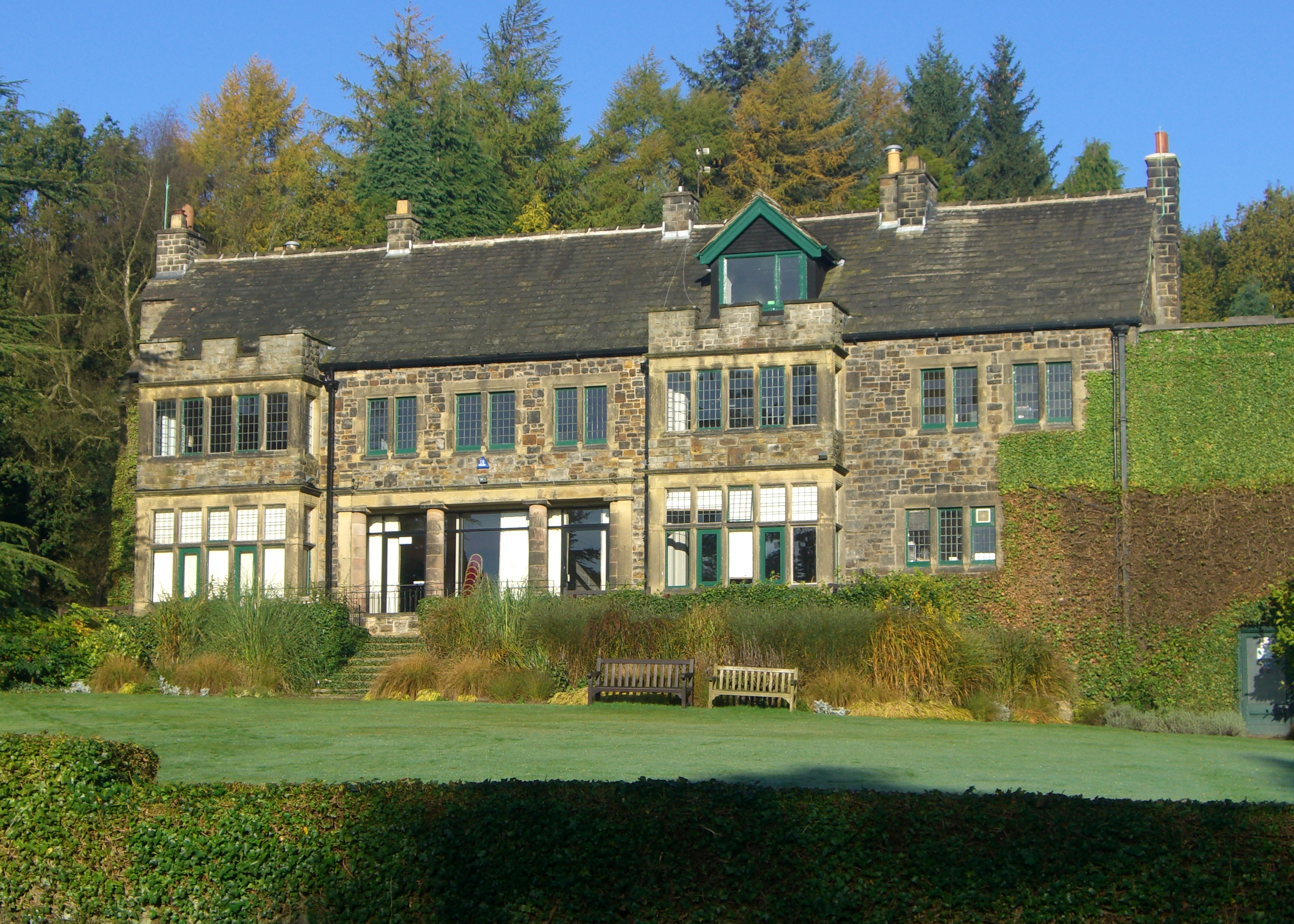 Whirlow Brook Hall in the Sheffield suburb of Whirlow, England.